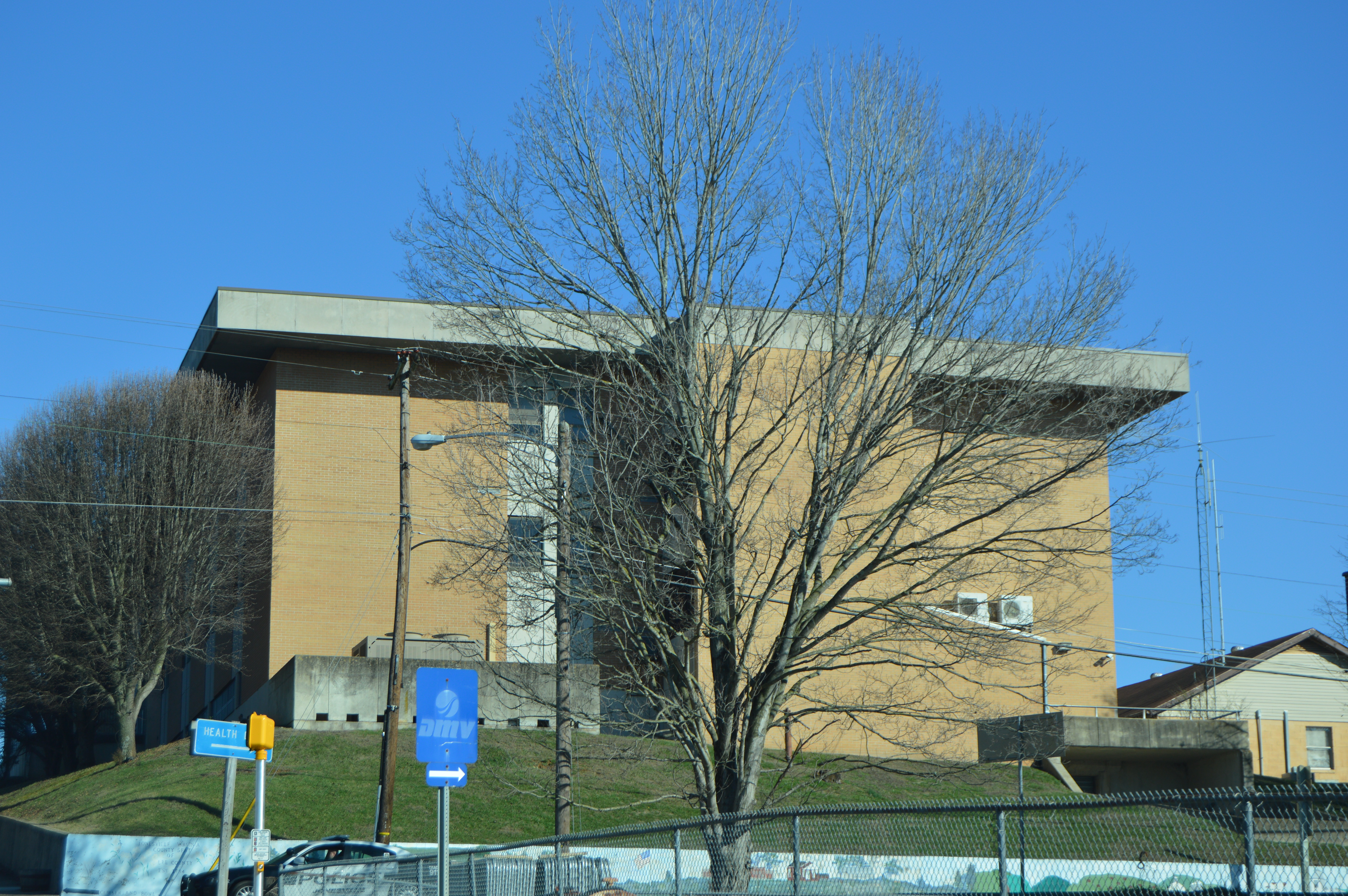 Western end of the Lee County Courthouse, located at the intersection of Park (U.S. Route 58) and Main Streets in downtown Jonesville, Virginia, United States.